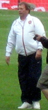 Vic Akers. Image cropped from original at flickr.